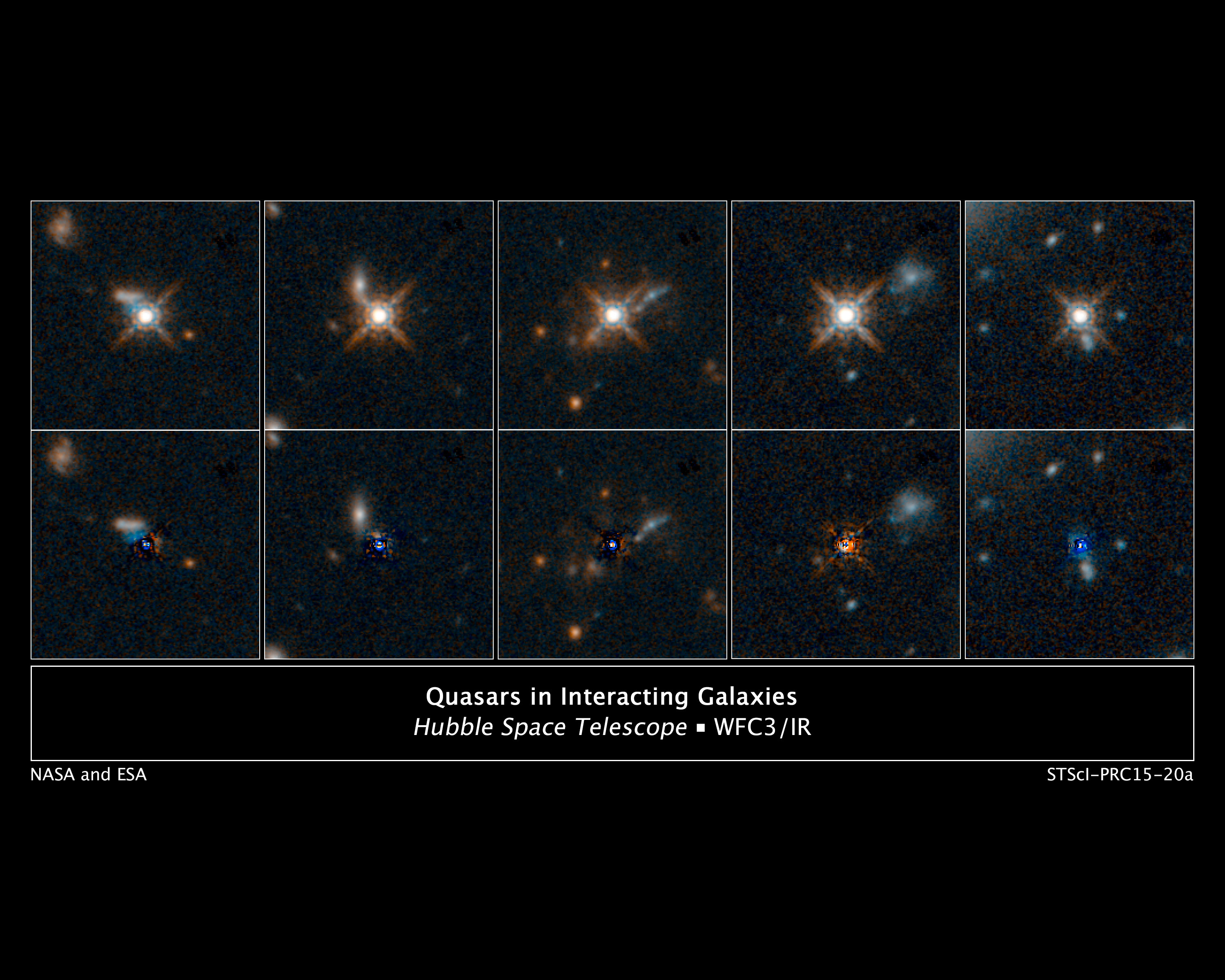 [Top Row] This is a selection of photos from a Hubble Space Telescope survey of 11 ultra-bright quasars that existed at the peak of the universe's star-formation era, which was 12 billion years ago. The quasars (powered by supermassive black holes) are so compact and bright they make a diffraction-spike pattern in the telescope's optics - an optical artifact typically only produced by bright nearby stars. Despite their brightness, the quasars are actually dimmed by dusty gas around them. The infrared capability of Hubble's Wide Field Camera 3 was able to probe deeply into the material around the quasars. [Bottom Row] When the glare of the quasar is subtracted, researchers see evidence for collisions between galaxies. The collisions and mergers gave birth to the quasars by fueling the supermassive black hole at the core of the galaxies. The new images capture the dust-clearing transitional phase in the merger-driven quasar birth. These observations show that the brightest quasars in the universe live in merging galaxies.